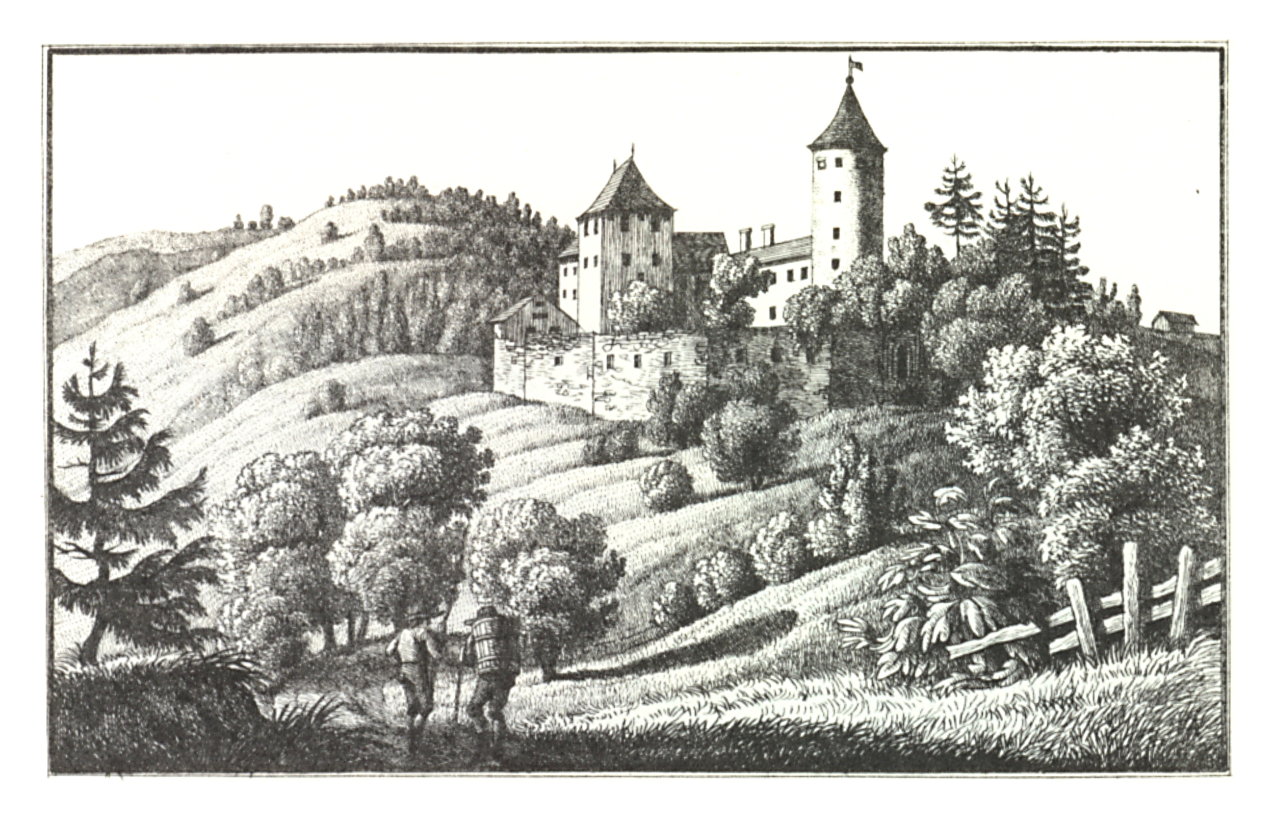 J. F. Kaiser - lithographirte Ansichten der Steyermärkischen Städte, Märkte und Schlösser Graz, 1825 Joseph Franz Kaiser (1786–1859) Alternative names J. F. KaiserDescriptionAustrian printer and editorDate of birth/death 11 March 1786 19 September 1859Location of birth/death Graz (Styria) GrazAuthority control : Q1499963 VIAF: 30629353 ISNI: 0000 0000 3083 0153 LCCN: n87141671 GND: 129880159 NLP: A24960305 WorldCat creator QS:P170,Q1499963 Scanprojekt Community Projektbudget 2012 This scan or this PDF-file was created within the GLAM-project Bookscanning, supported by Wikimedia Germany and Wikimedia Austria as a part of the community-project to capture books, documents and pictures which are not eligible to copyright or for which the copyright has expired. This document describes or depicts an object which is located in Austria today. Send requests for uncompressed scans to Hubertl. This work is in the public domain in its country of origin and other countries and areas where the copyright term is the author's life plus 100 years or less. You must also include a United States public domain tag to indicate why this work is in the public domain in the United States. This file has been identified as being free of known restrictions under copyright law, including all related and neighboring rights.